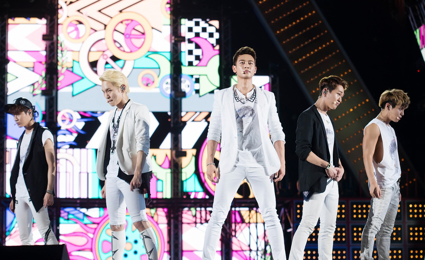 Shinee at the MBC Korean Music Wave in Bangkok on March 16, 2013.